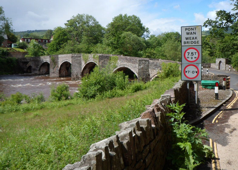 Llangynidr Bridge, Llangynidr near Crickhowell, Powys, Wales. A Grade I listed stone bridge across the River Usk. "Weak Bridge" sign in foreground.